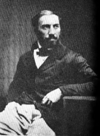 Théodore Herlin (1817-1889), French chess composer from Lille